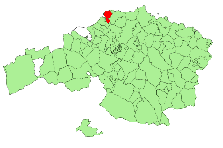 Gorliz municipality in the province of Biscay